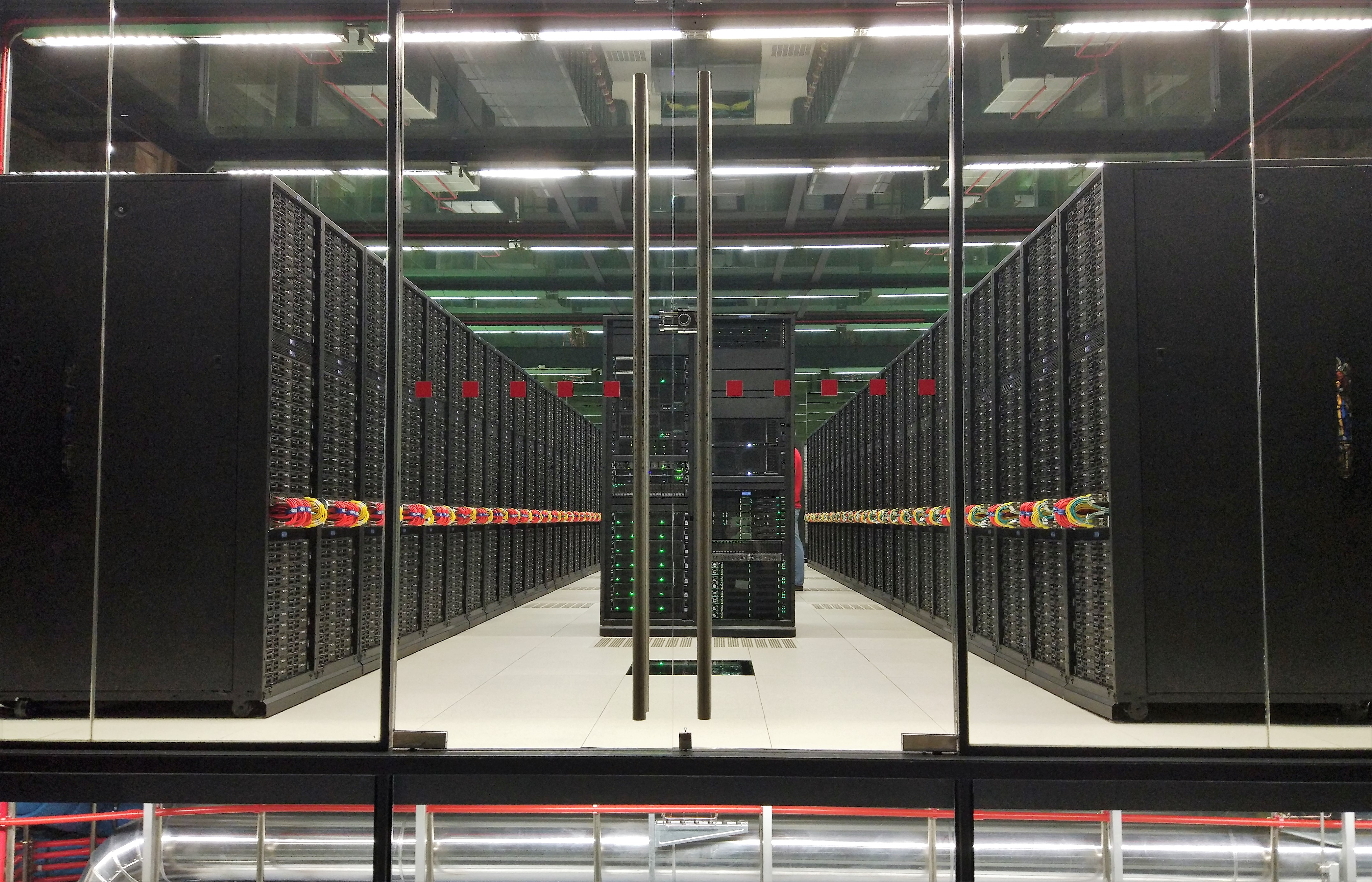 MareNostrum 4 supercomputer at Barcelona Supercomputing Center (2017)